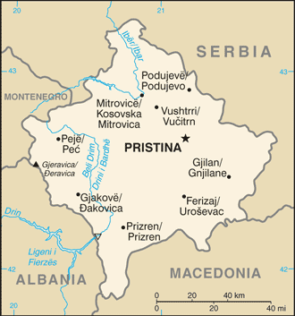 Map of Kosovo